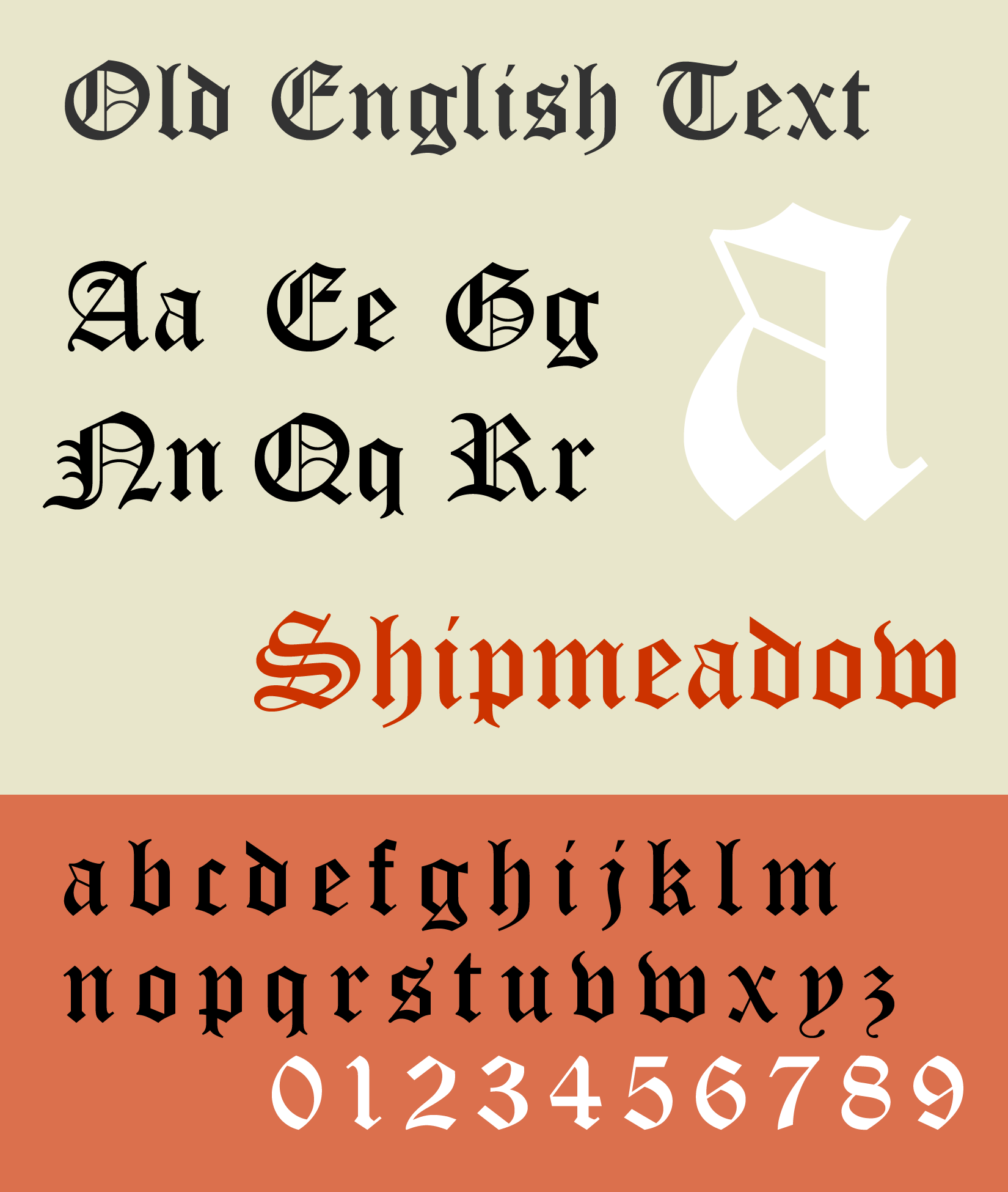 Specimen of the typeface Old English Text (Monotype).